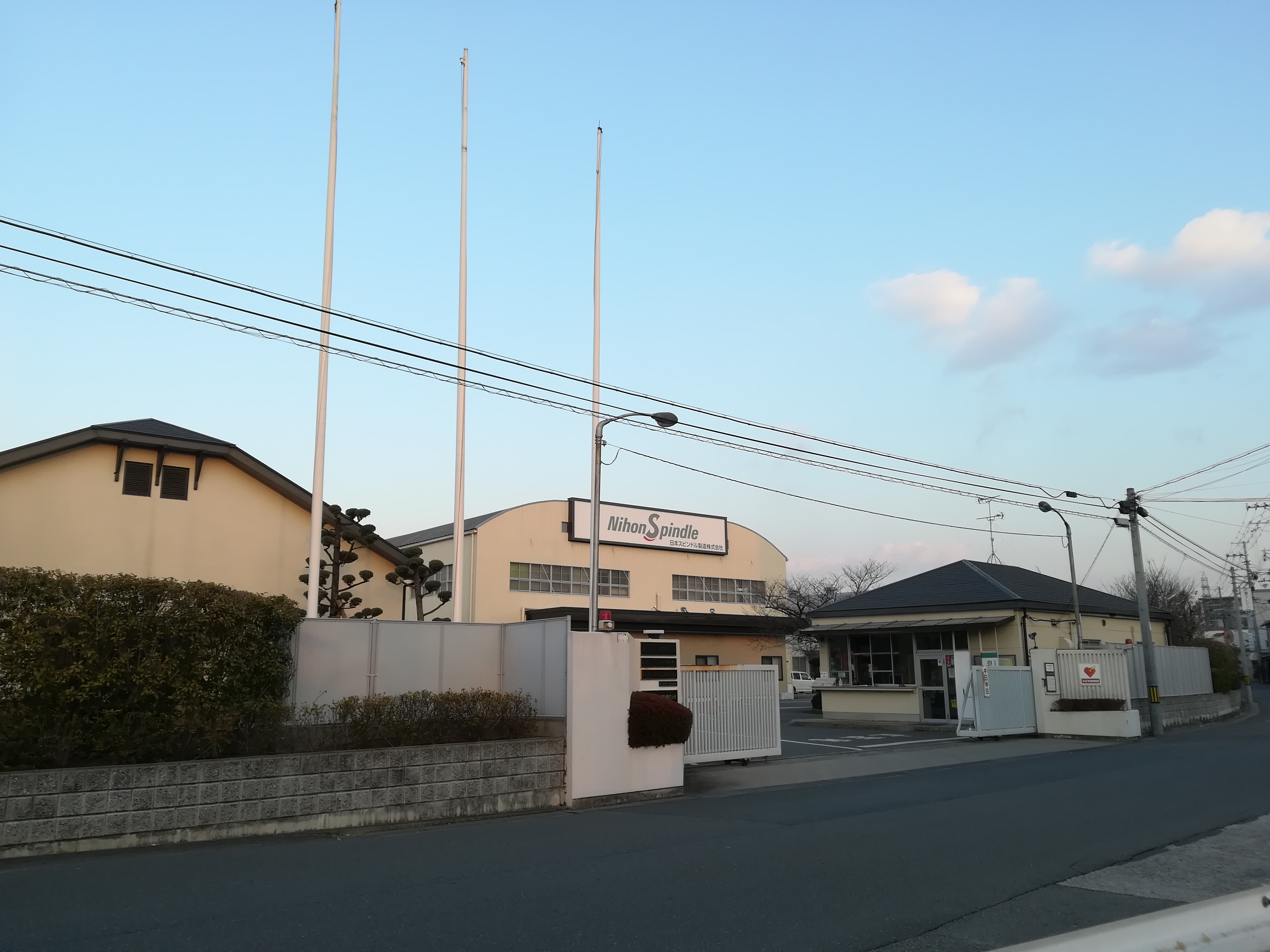 Head Office of Nihon Spindle Manufacturing Co., Ltd.